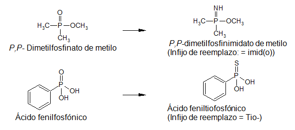 Oxygen replacement nomenclature